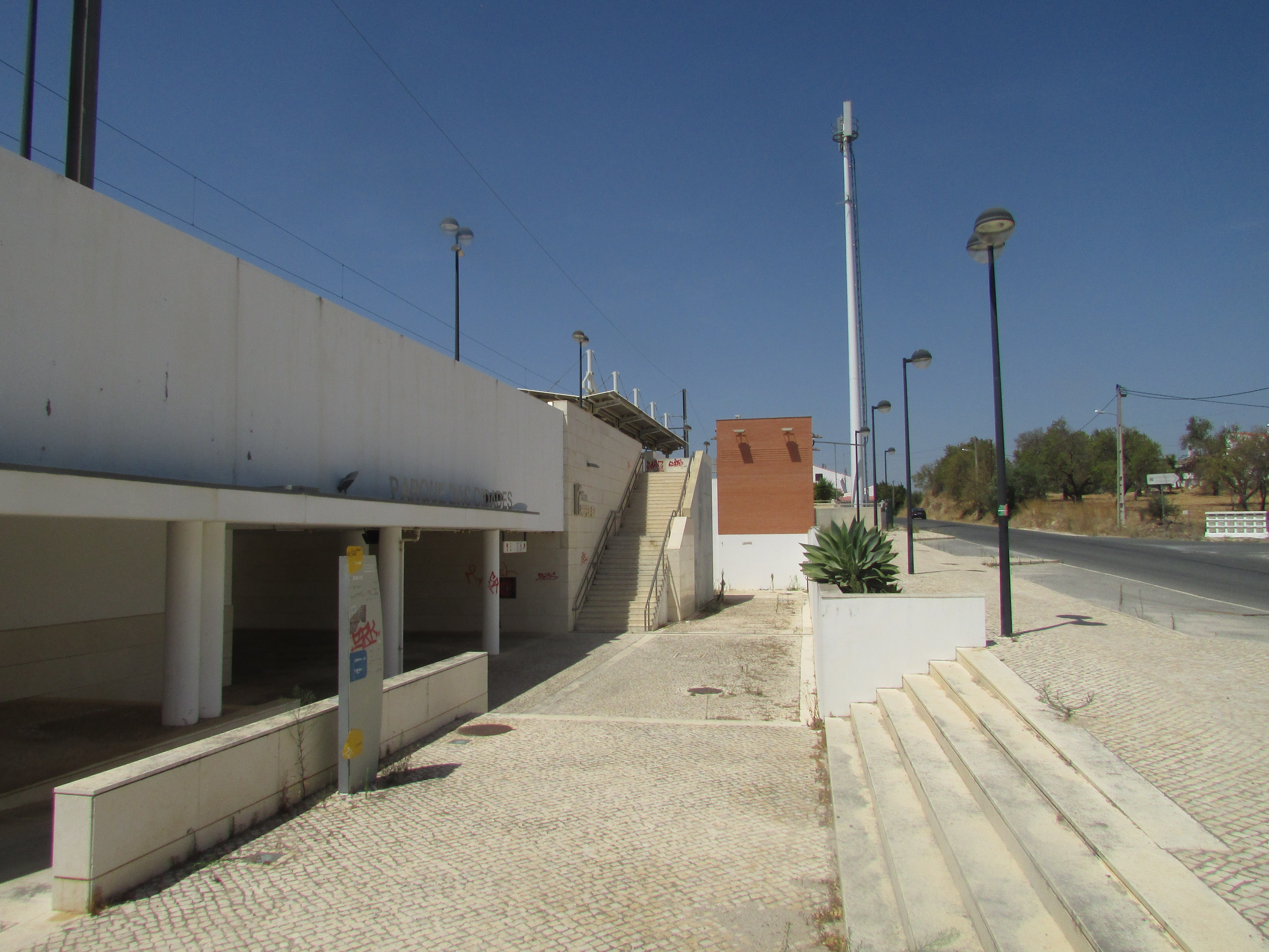 The forecourt of the Parque Das Cidades railway station near the village of Esteval in the municipality of Loulé, Algarve, Portugal. This station was completed in 2004 as the rail link to the Algarve Stadium which was built for the Euro 2004 football tournament. Parque das Cidades was meant to be a complex built around Algarve Stadium which was never completed. The station nowadays is a quiet backwater with very little use.